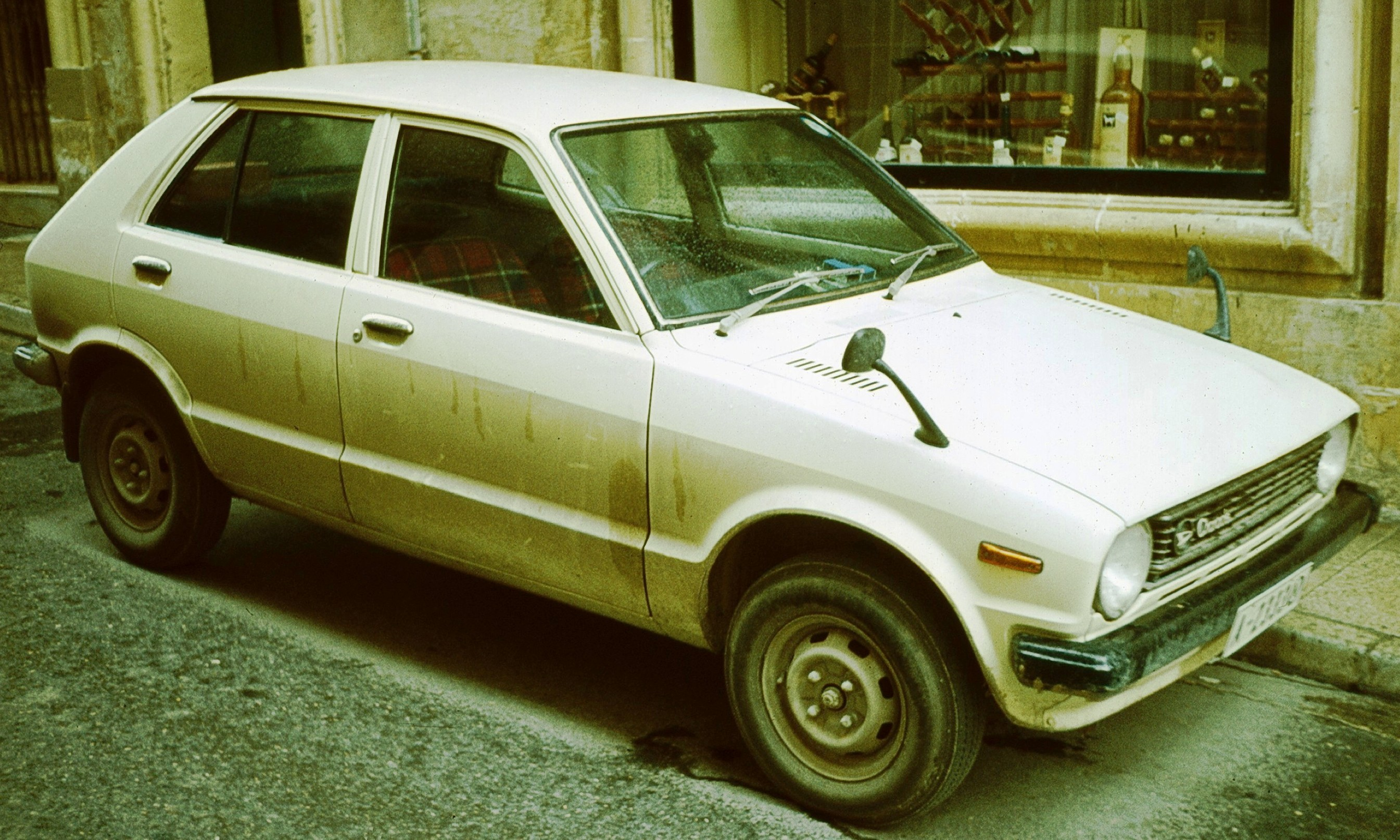 Daihatsu Charade in Chania outside a drinks shop with a bottle of Spanish brandy in the window. Picture taken between rain showers. This replaces an earlier copy of this image that I uploaded a few years back. I have removed some of the dust.